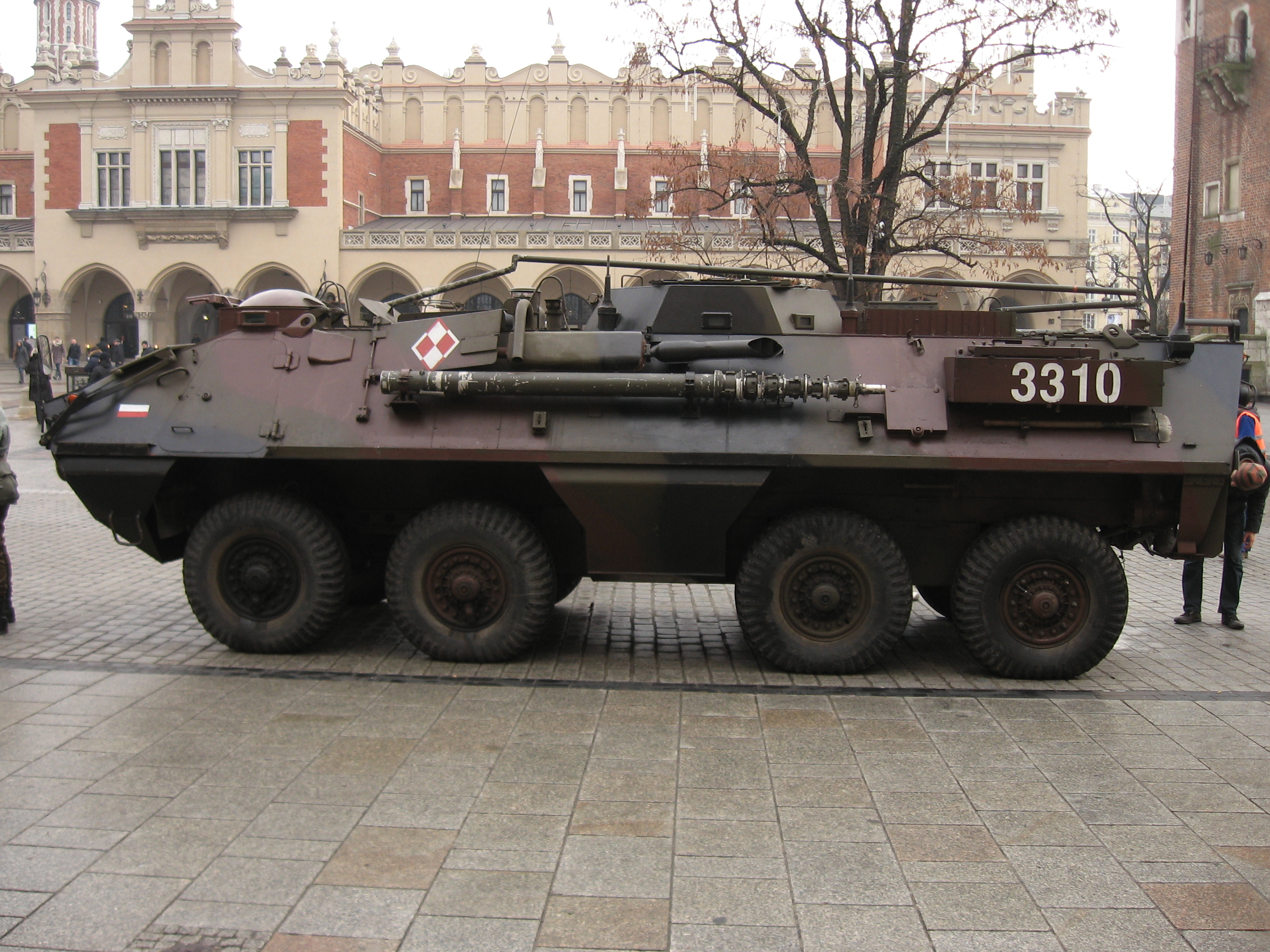 SKOT R-2AM on Main Market Square in Kraków.